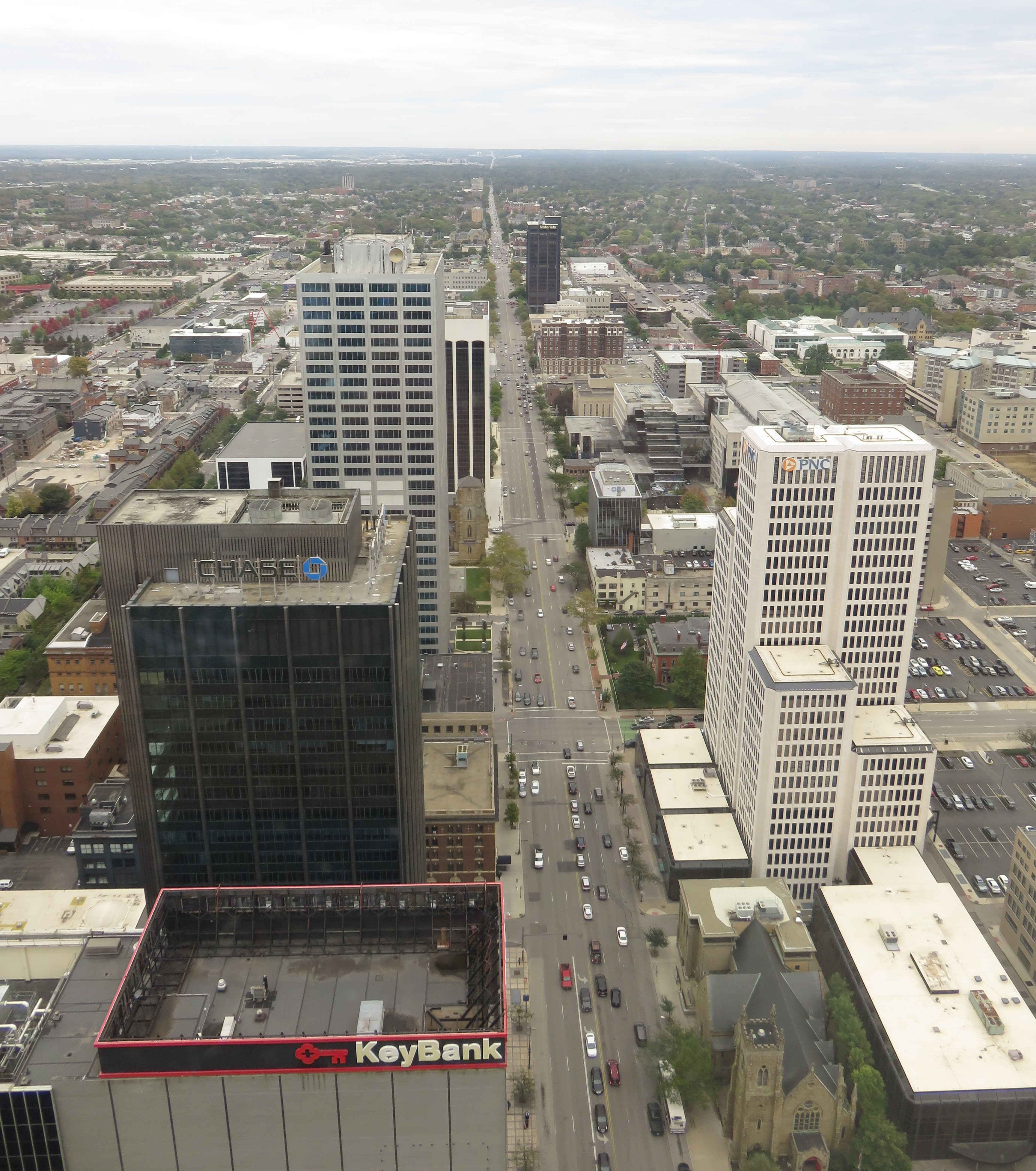 East Broad Street (U.S. Route 40) from the Rhodes Tower in 2018